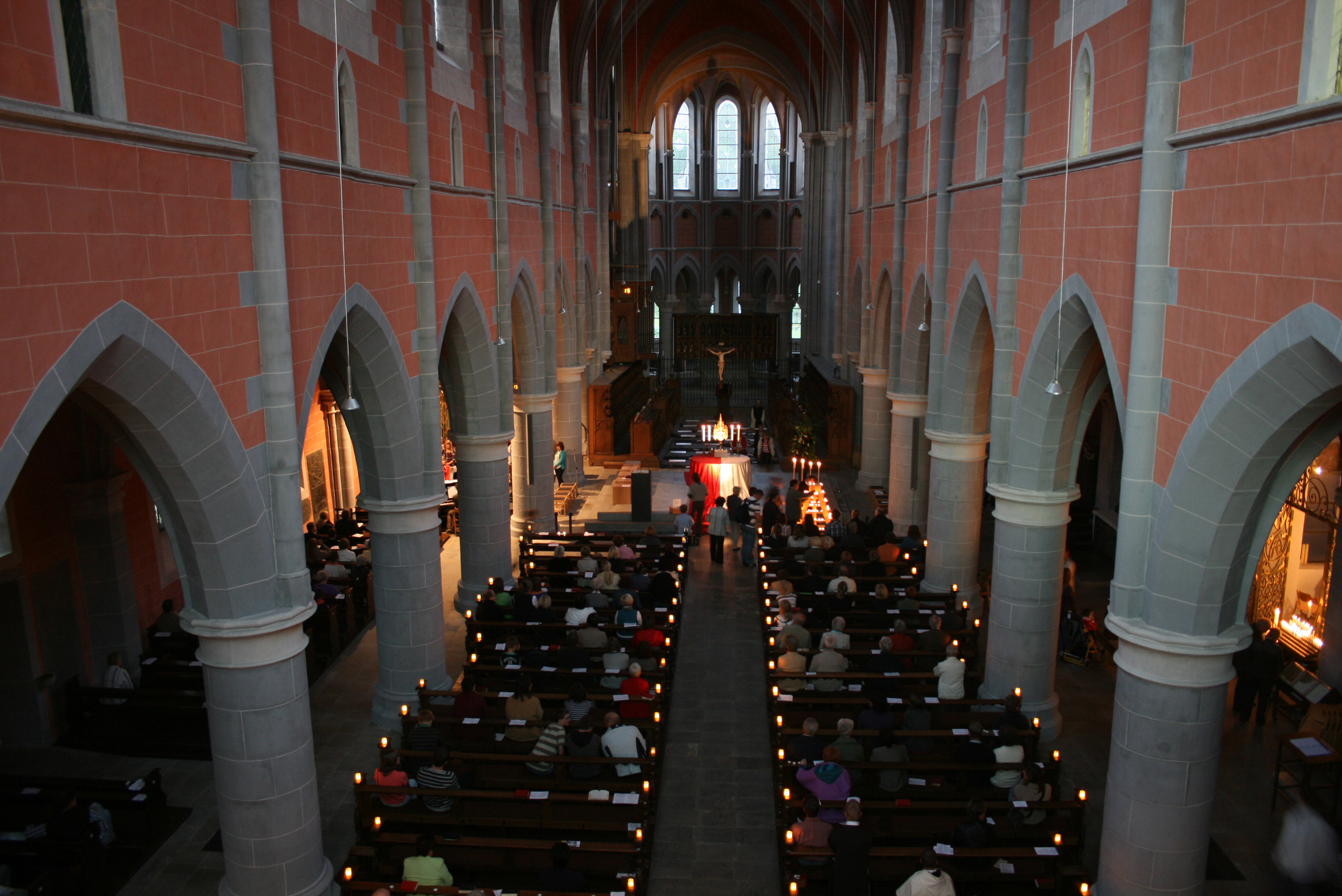 Die Basilika von Marienstatt